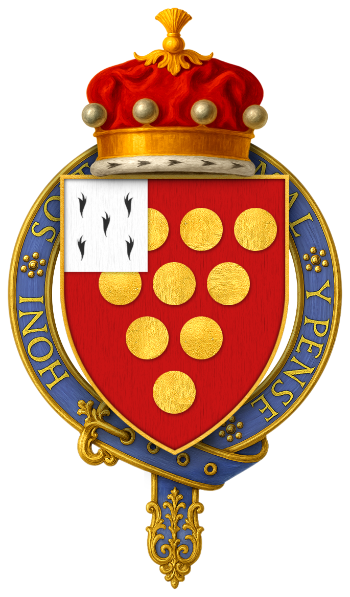 Sir William la Zouche, 5th Baron Zouche, KG BURKE, Sir Bernard, The General Armory of England, Scotland, Ireland, and Wales: Comprising a Registry of Armorial Bearings from the Earliest to the Present Time, London: Harrison & sons, 1884. “ Zouche (Baron Zouche, of Harringworth... Same Arms [as Baron Zouche, of Ashby - Gu. ten bezants, four, three, two, and one.], with a canton erm. ”